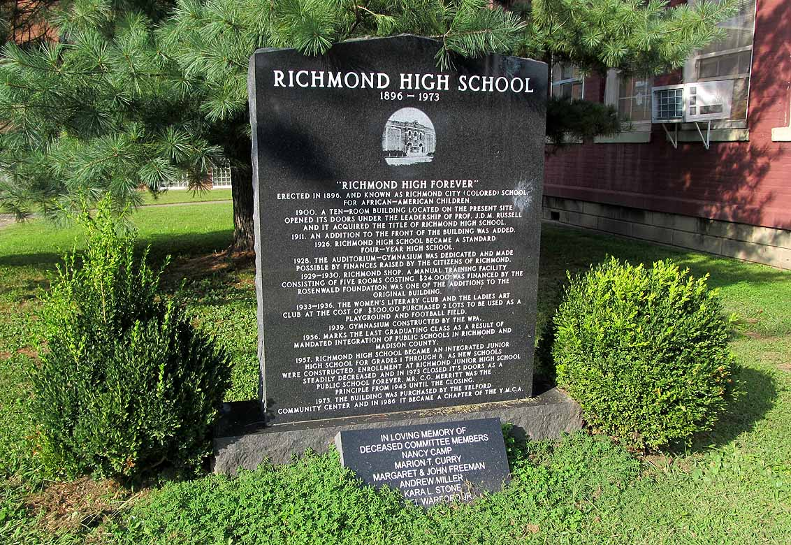 Monument in front of the Telford YMCA Community Center (formerly Richmond High School).